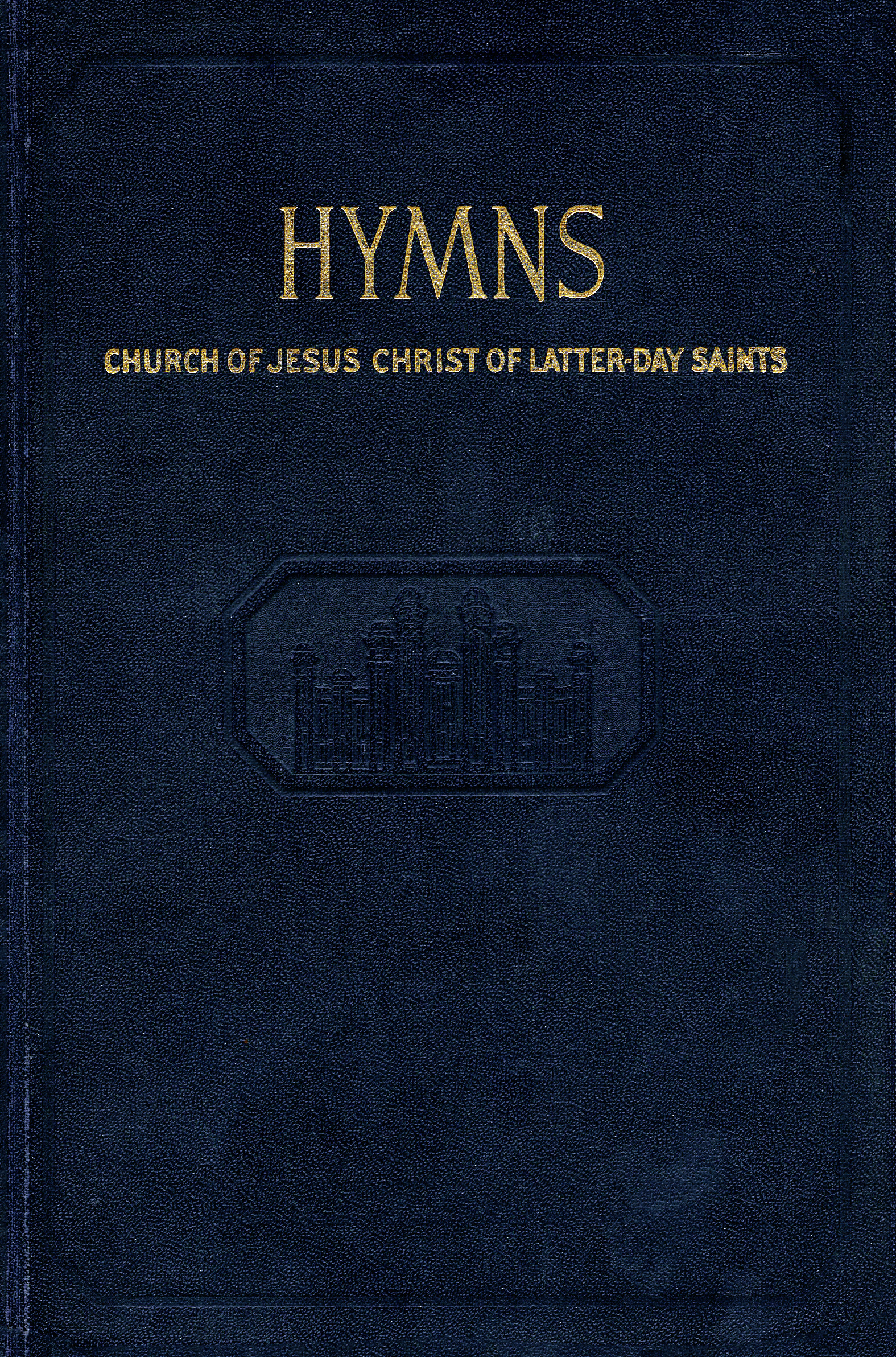 1948 edition (Revised and Enlarged) hymn book of the Church of Jesus Christ of Latter-day Saints (contains 389 hymns, but 1948 edition) - printed in 1961 (Sixteenth printing), Mormon